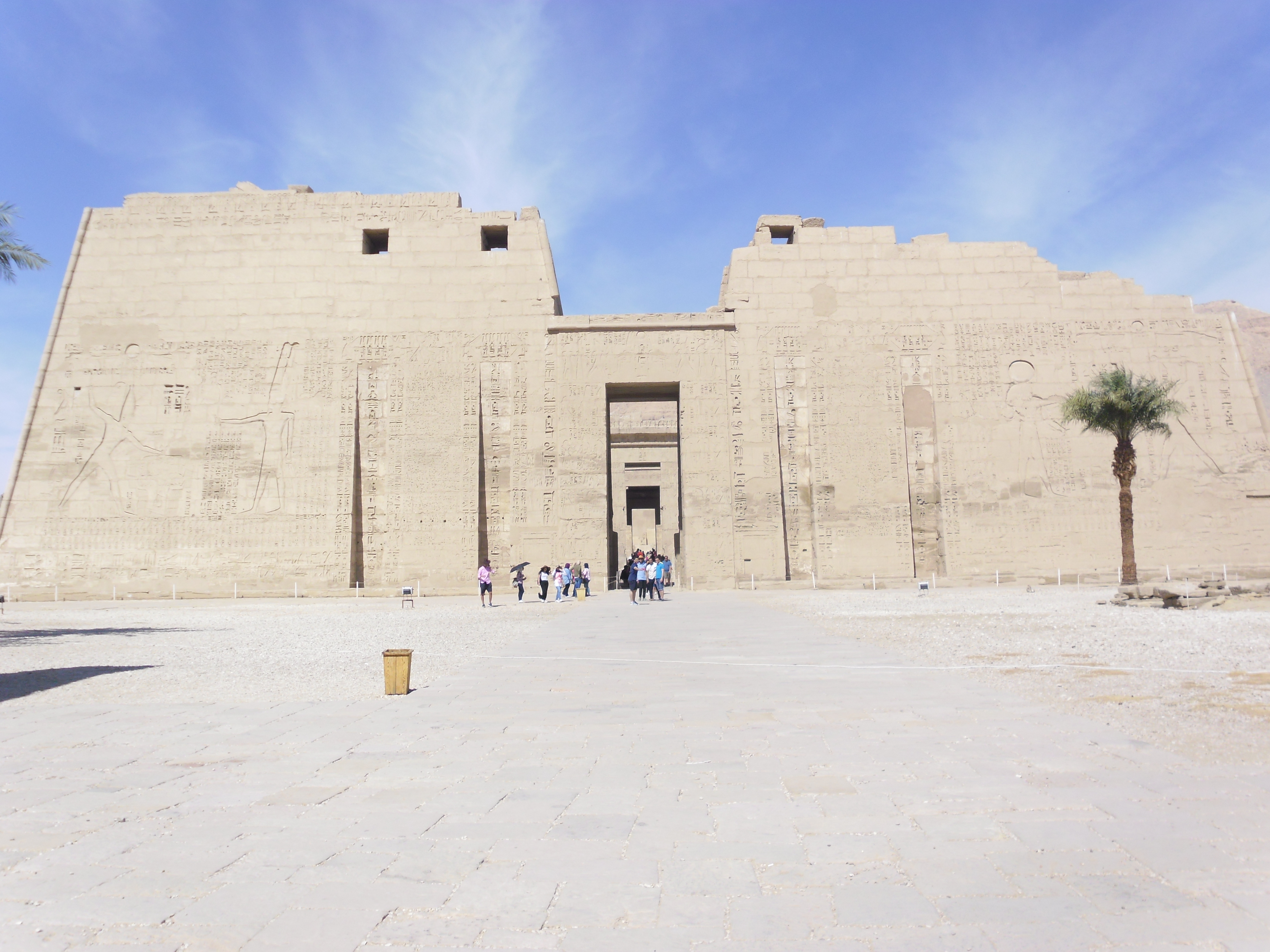 Mortuary Temple of Ramesses III at Medinet Habu